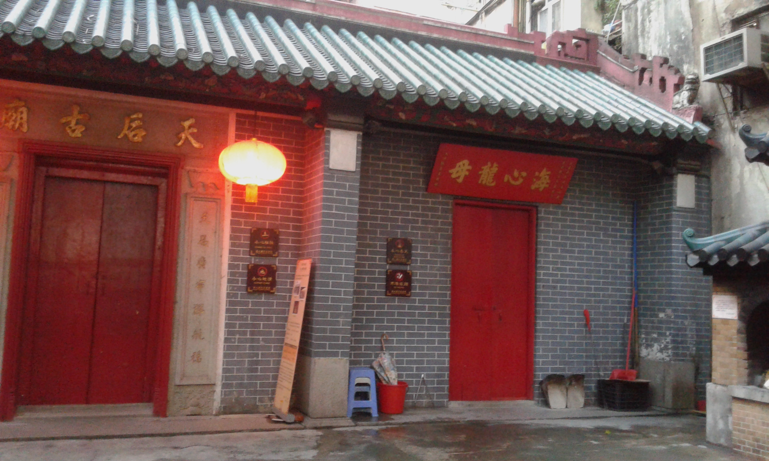 Tin Hau Temple, To Kwa Wan. Front view. The central hall (left) is dedicated to Tin Hau, the one on the right of the picture is dedicated to Lung Mo. It houses the statue of Lung Mo (Longmu in Mandarin), which was transferred here in 1964, when the temple at Hoi Sham Island was demolished following land reclamation.